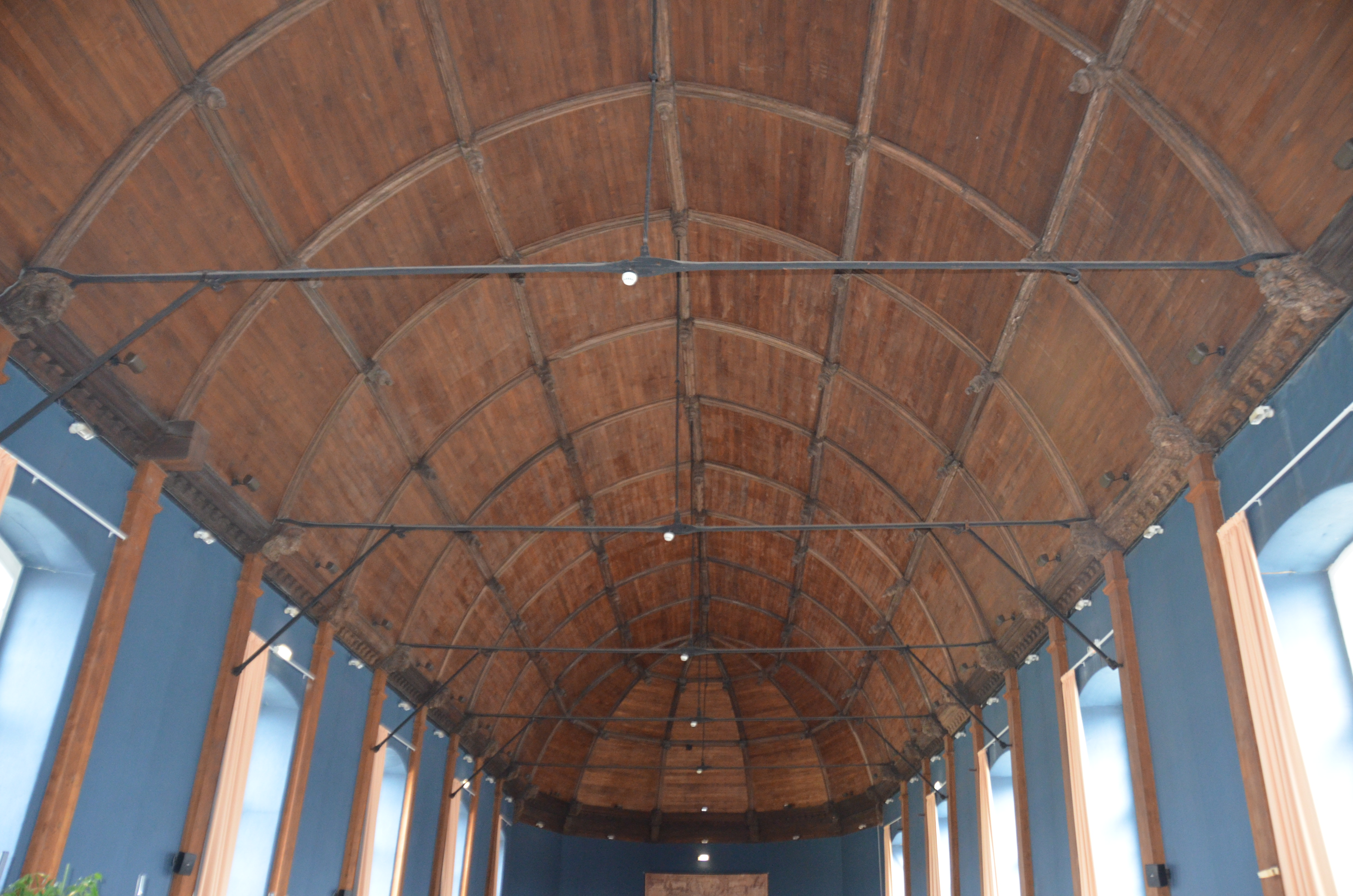 The Anchin halls of Douai (Nord, France).